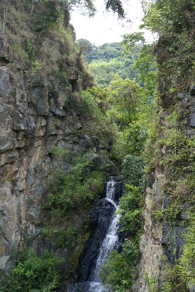 A waterfall near the Wire Opera in Curitiba, Brazil. By J.Z.Berger